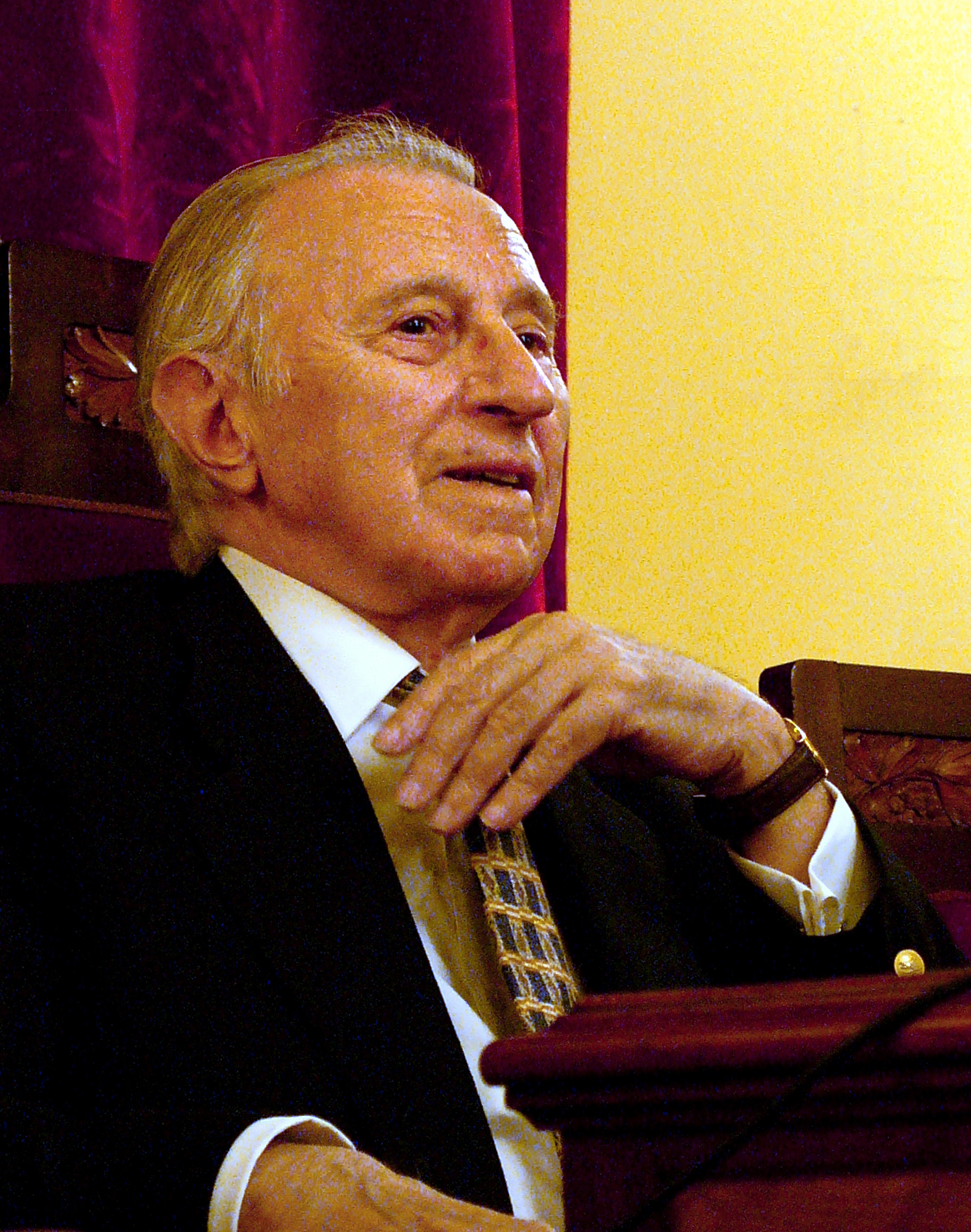 Valencian retired politician and writer Francesc de P. Burguera during the presentation of his book Des de la trinxera in hometown Sueca